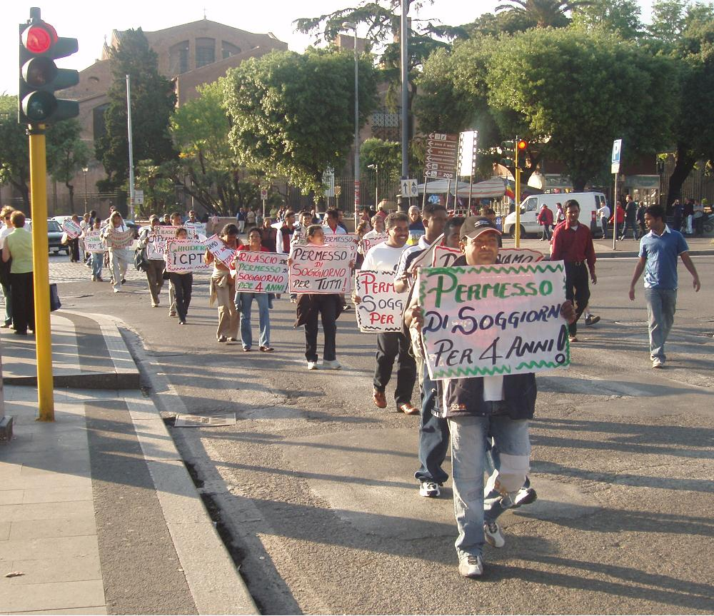 Foreign workers demonstration, Rome, May 2006. Picture taken by David Shay